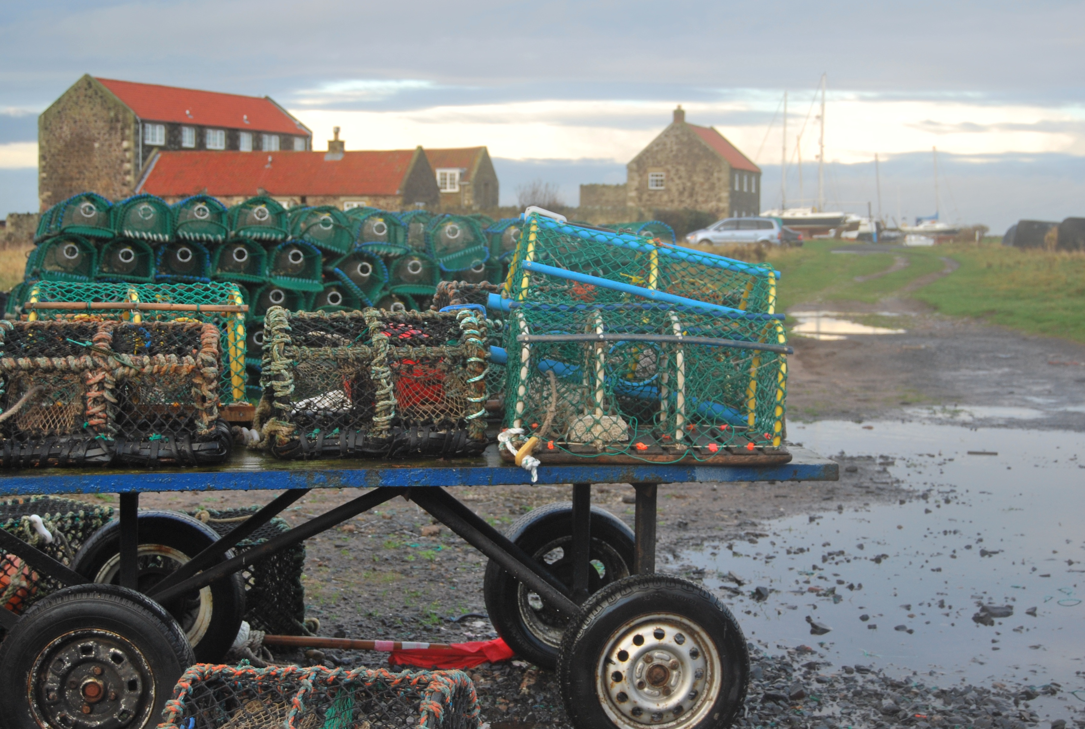 Crab traps at Lindisfarne Harbour Northumberland